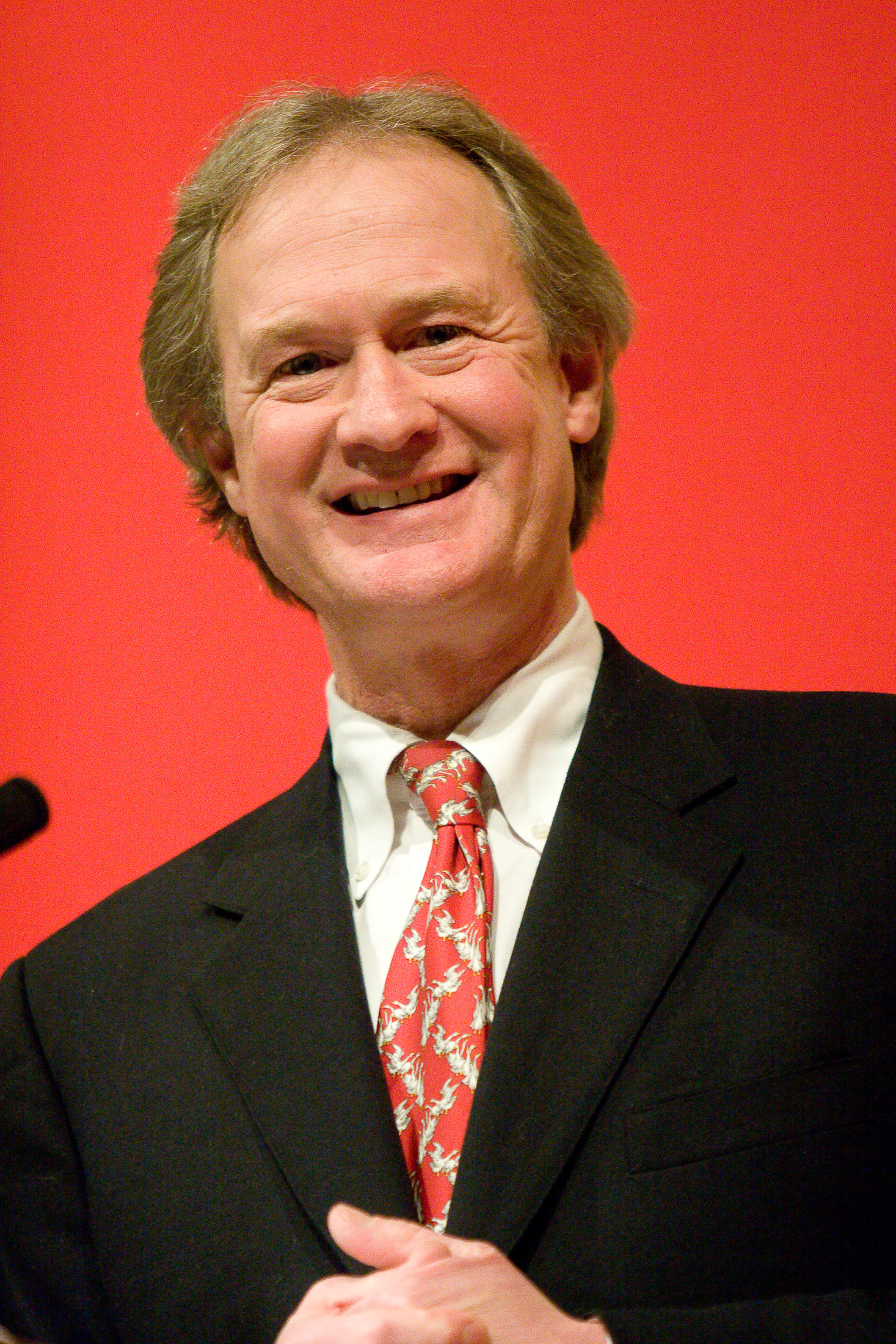 RI governor Lincoln Chafee makes an appearance at Brown University in 2007.